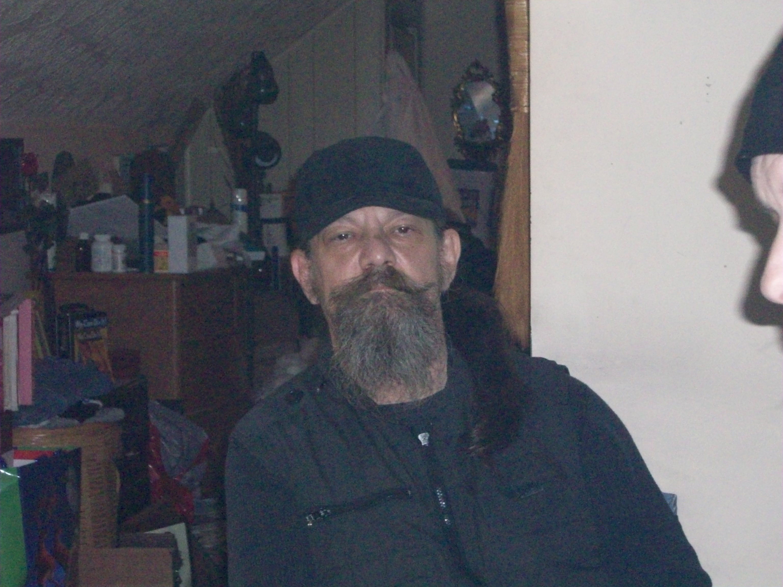 Eric Moore (May 7, 1952 — May 17, 2019) of The Godz Columbus Ohio USA 29 DEC 2008